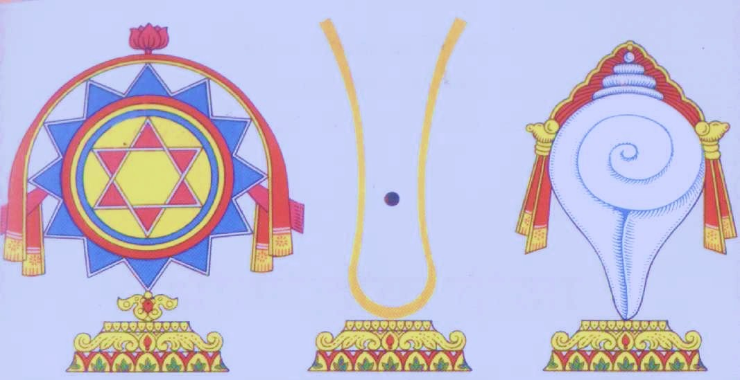 I created this image from scratch using computer programmes.